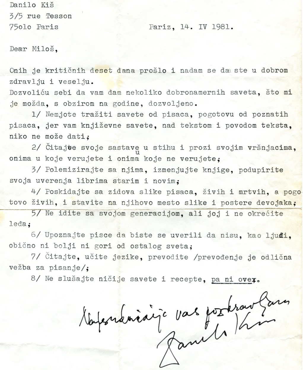 Danilo Kiš's letter to Miloš Janković (1981), this letter later inspired Kiš to write "Advices to the young writers" (original: "Saveti mladom piscu", 1984). Letter can be found in the Society for Culture, Art and International Cooperation Adligat in Belgrade, Serbia. Српски (ћирилица): Писмо Данила Киша упућено Милошу Јанковићу за његов рођендан 1981. године. На основу писма касније је настало дело "Савети младом писцу" (1984). Налази се у Удружењу за културу, уметност и међународну сарадњу Адлигат у Београду.